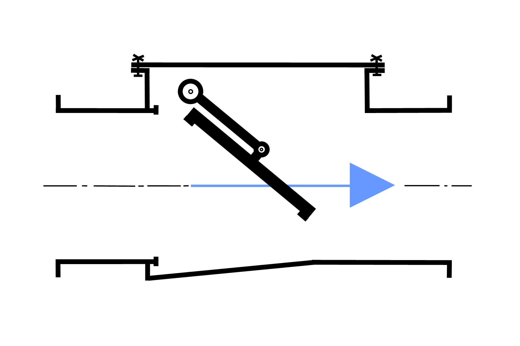 Swing type check valve, principle skatch